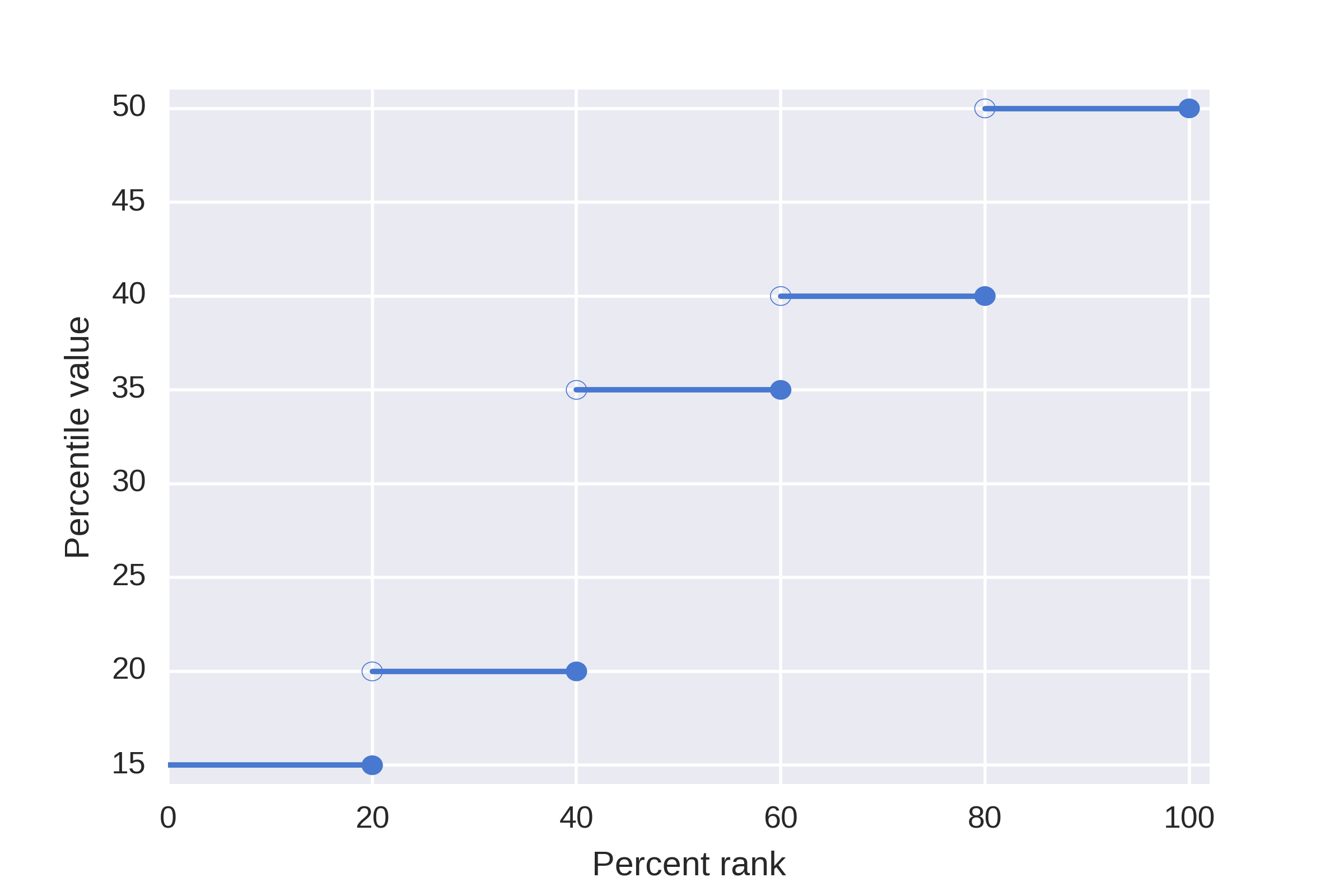 Illustration of the first definition of "percentile" used in percentile.